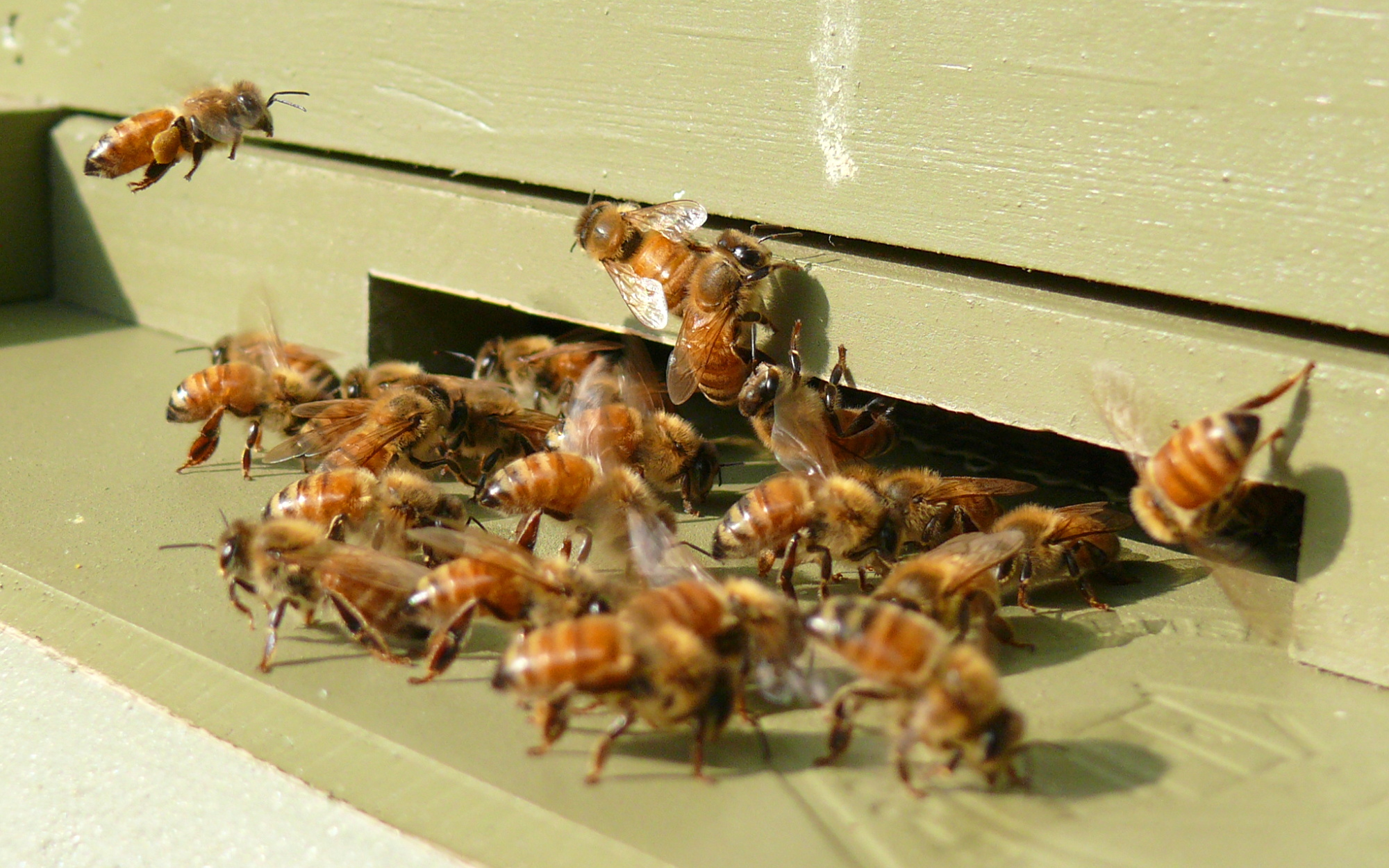 Italian honeybees (Apis mellifera ligustica) and a typical afternoon at the hive entrance. Many of the workers gathered around the entrance are 'fanning', which distributes a powerful homing pheromone from a gland on the bee's abdomen, and also helps to ventilate and cool the hive. The bees facing outward are mostly entrance guards, who inspect bees as they land to make sure invaders cannot enter the hive. In the upper left corner of the photo a forager is preparing to land, with a harvest of pollen stuck to the hairs on her rear legs, which will be used to feed the brood developing inside the hive. Photo taken with a Panasonic Lumix DMC-FZ50 in Caldwell County, NC, USA.